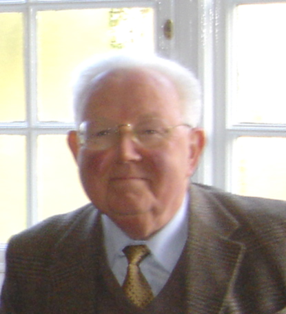 Professor Sir Sam Edwards